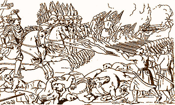 Drawing by Vernier based on the relief "John II Casimir Vasa at Battle of Beresteczko" in 1651. This relief is on the lower part of the tomb containing the heart of John II Casimir Vasa at Abbey of Saint-Germain-des-Prés in Paris. (Artist of the original relief: the French Benedictine monk Jean Thibaut.)